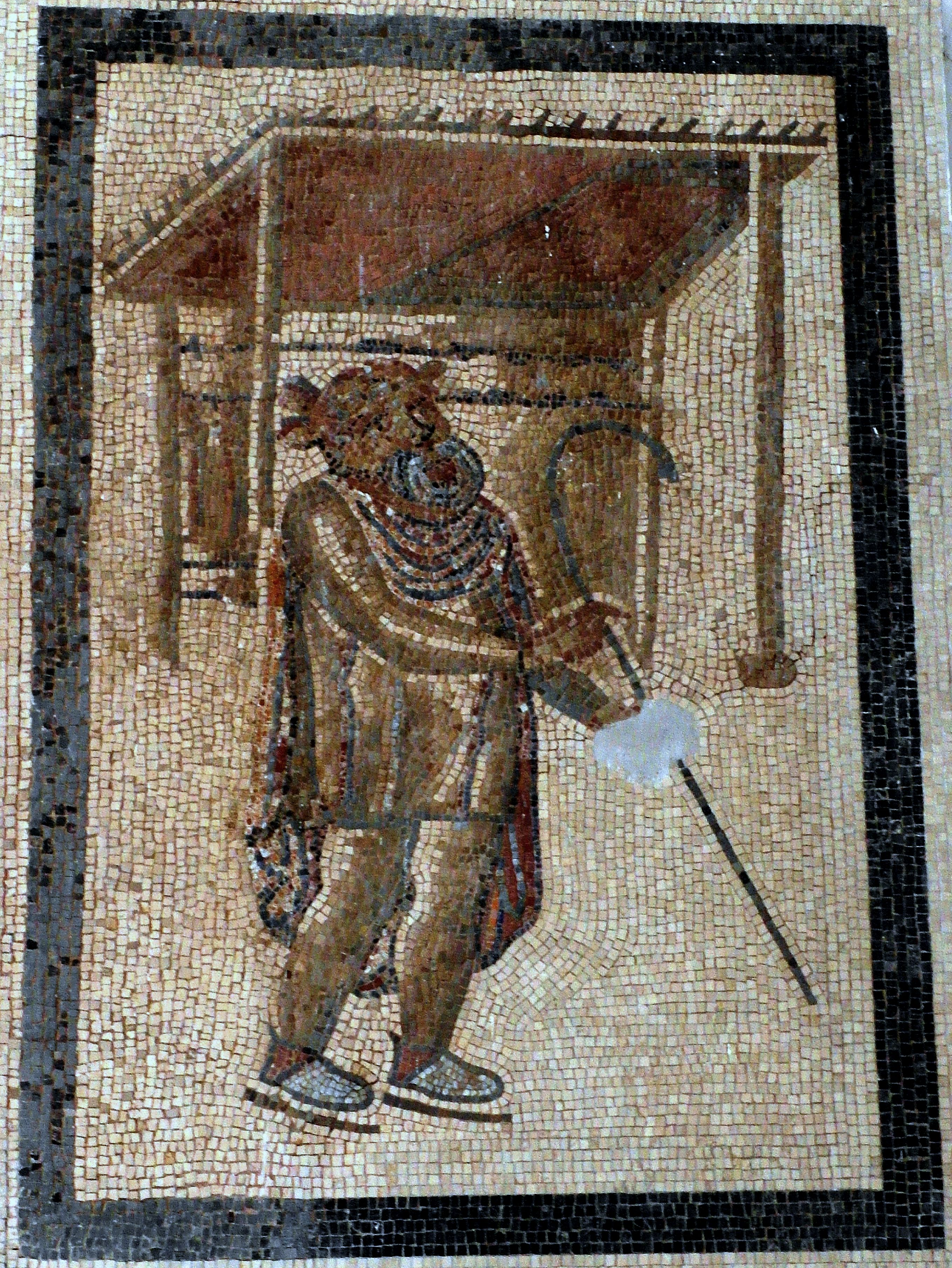 Tragic actor, Roman mosaic II-III century BC, Cordoba, Spain